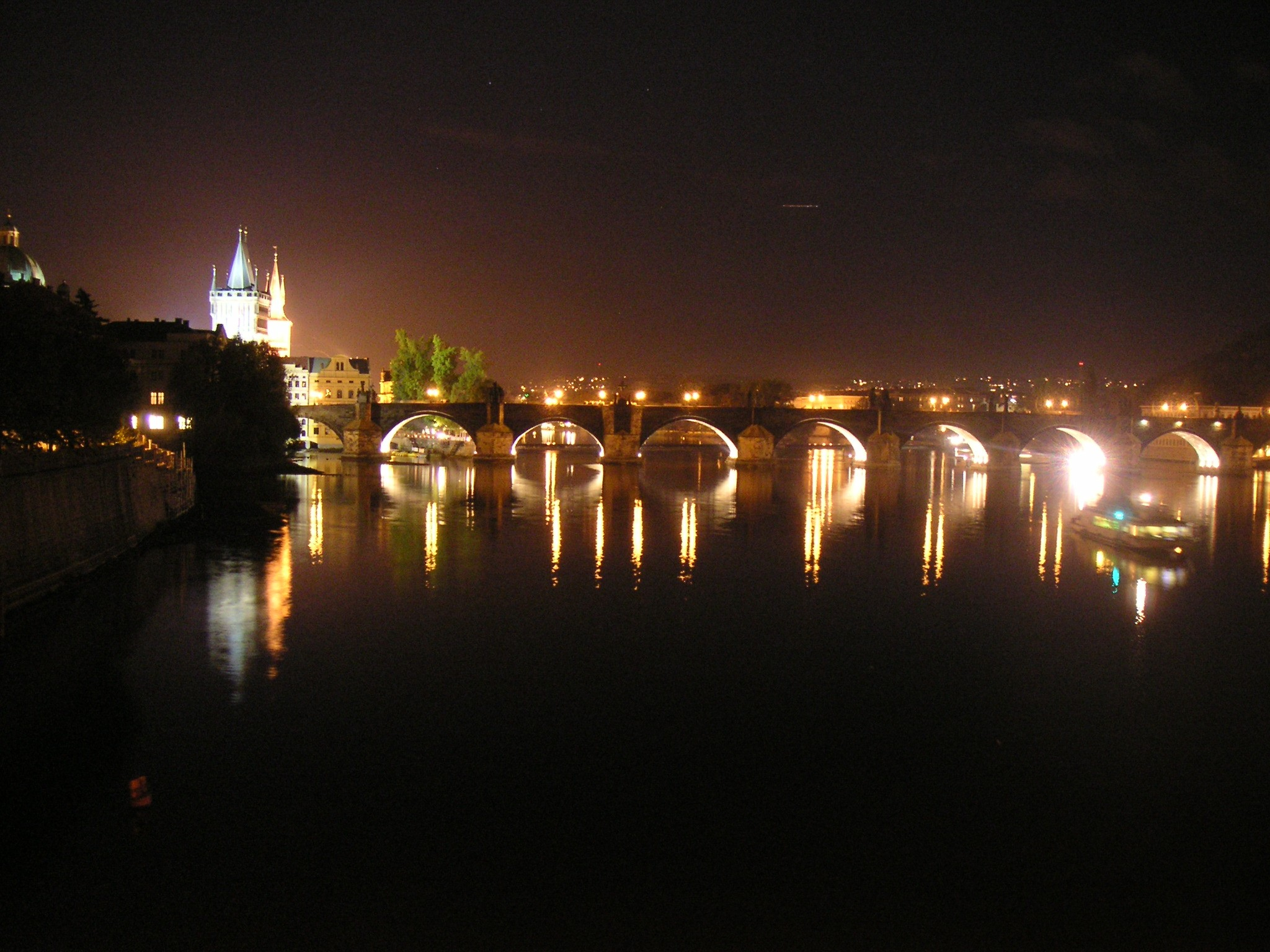 Charles Bridge at night - Prague.